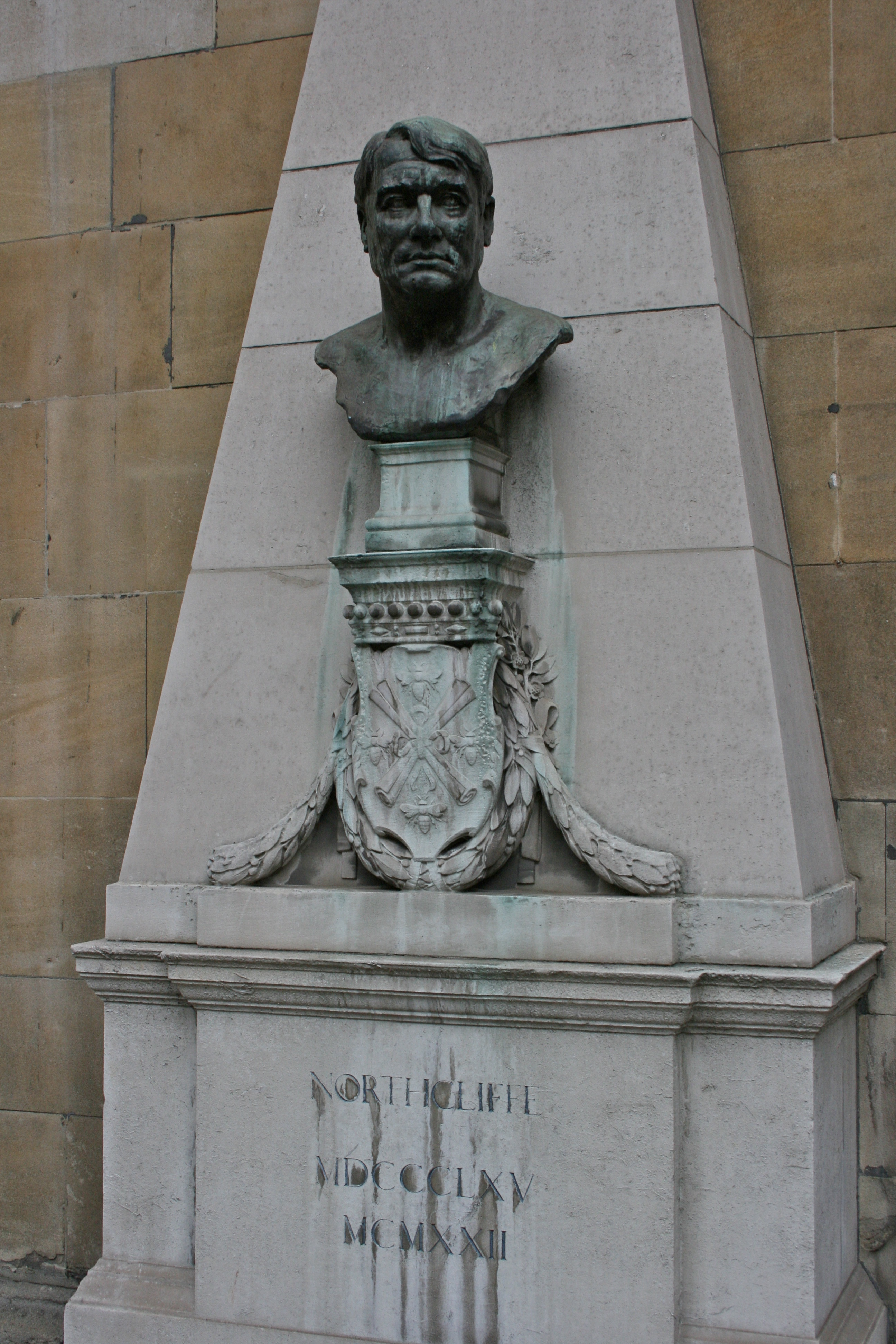 Bust of Northcliffe, MDCCCLXV MCMXXII, London.